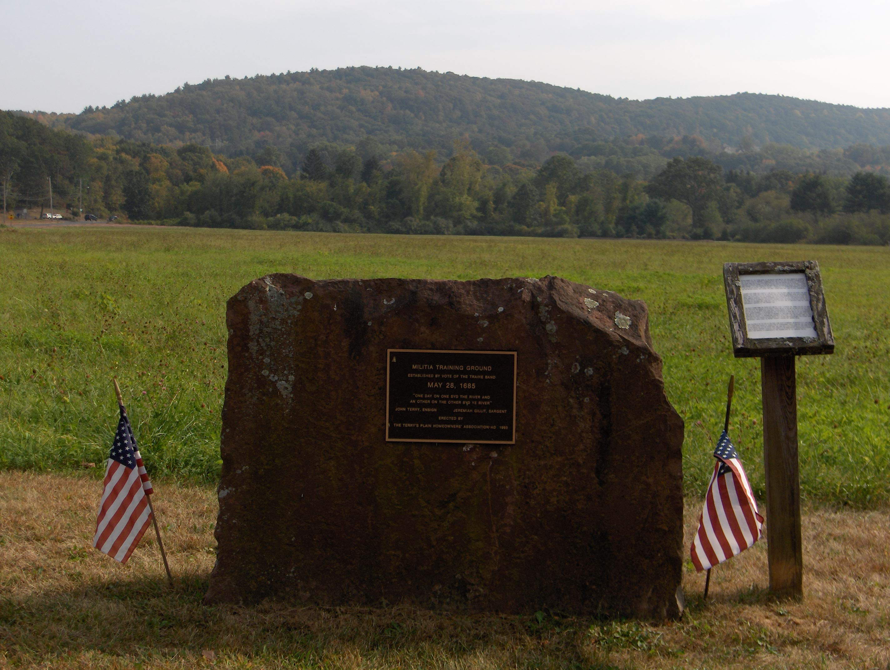 Field used for a training ground for the militia in 1685 at Terrys Plain, Simsbury, Connecticut